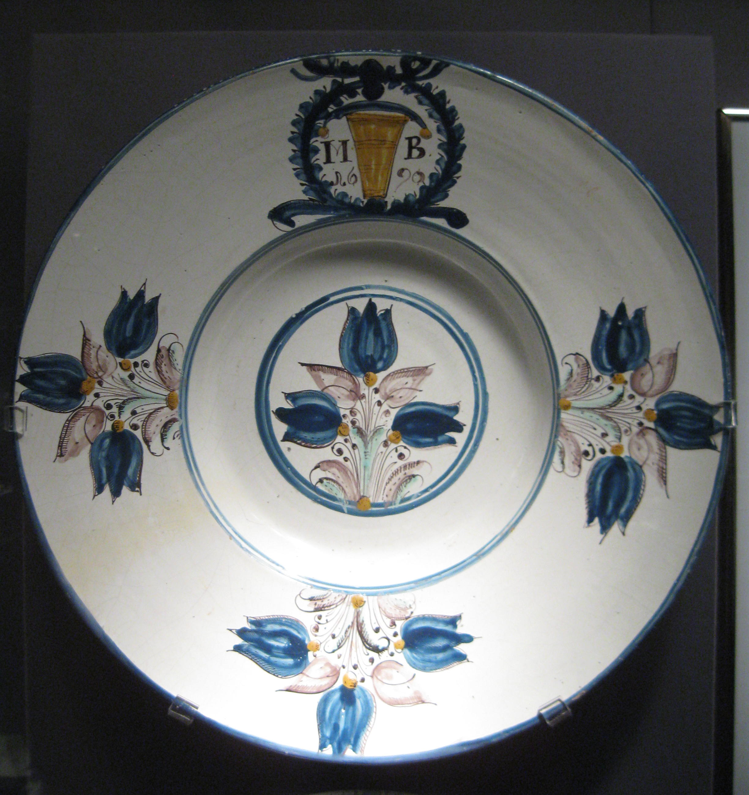 A 1690 Anabaptist or Haban faience dish from Slovakia. This example of Anabaptist pottery features floral motifs and is today part of the permanent collection of the UBC Museum of Anthropology in Vancouver, Canada, where its catalogue number is Ch132. The late Walter Koerner donated his collection of European and Asian ceramic wares to UBC and a wing of the Museum is today names after him. (the Koerner Ceramics Gallery).